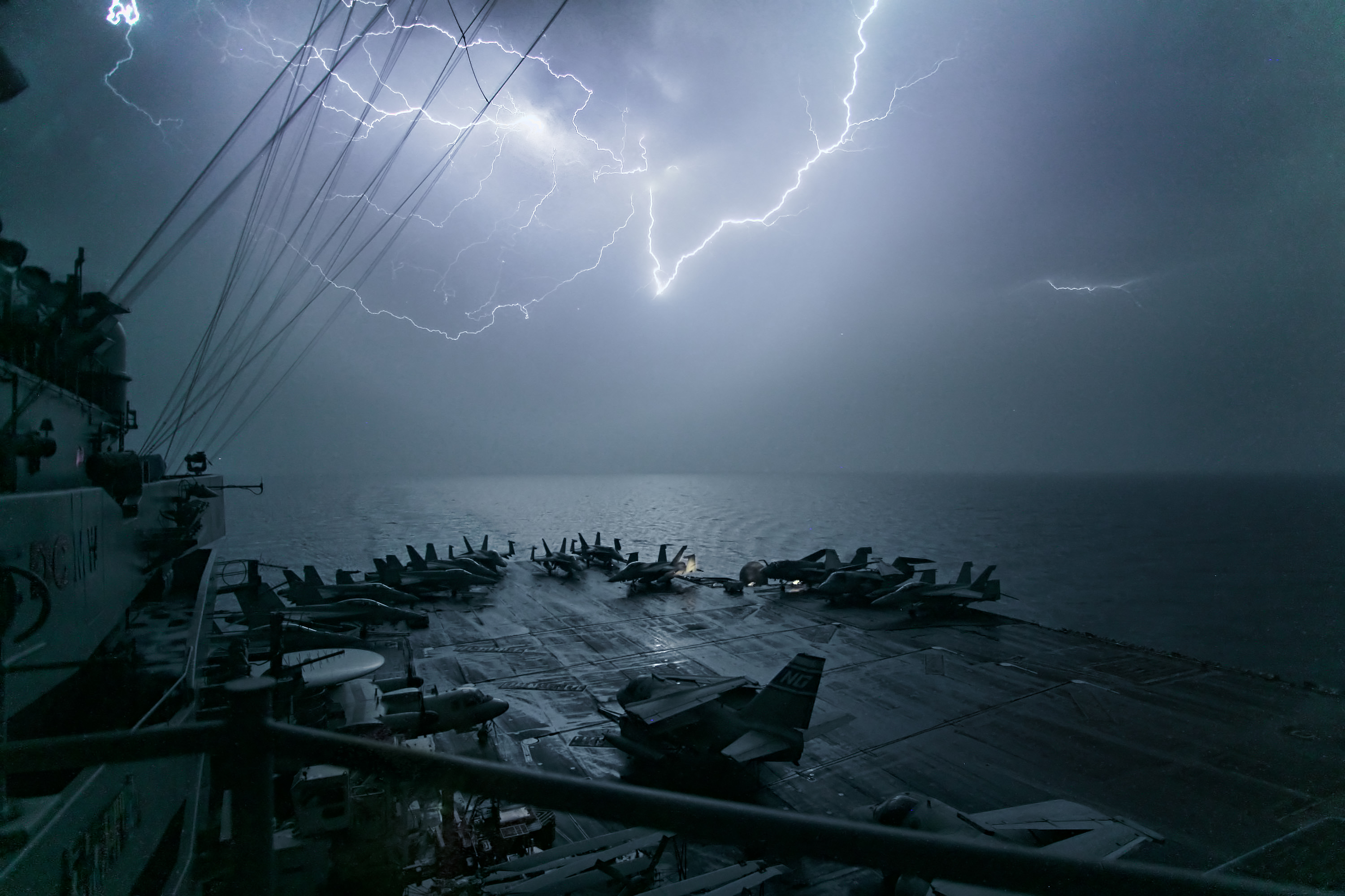 [1] Lightning strikes over the flight deck of the Nimitz-class aircraft carrier USS John C. Stennis (CVN 74) as the ship transits through the Persian Gulf March 28, 2007. The John C. Stennis Carrier Strike Group and Carrier Air Wing Nine are conducting a dual-carrier exercise with the Eisenhower Carrier Strike Group and Carrier Air Wing Seven.